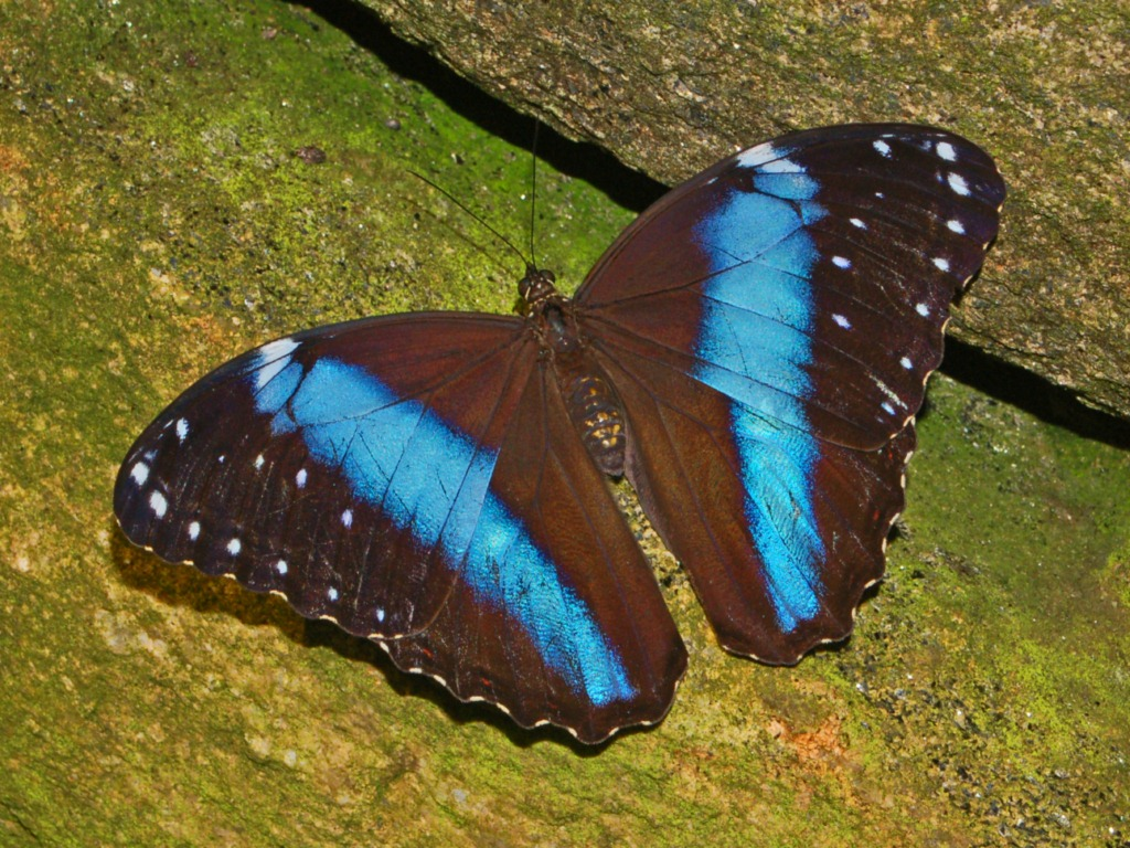 Morpho achilles - Niagara Falls Conservatory